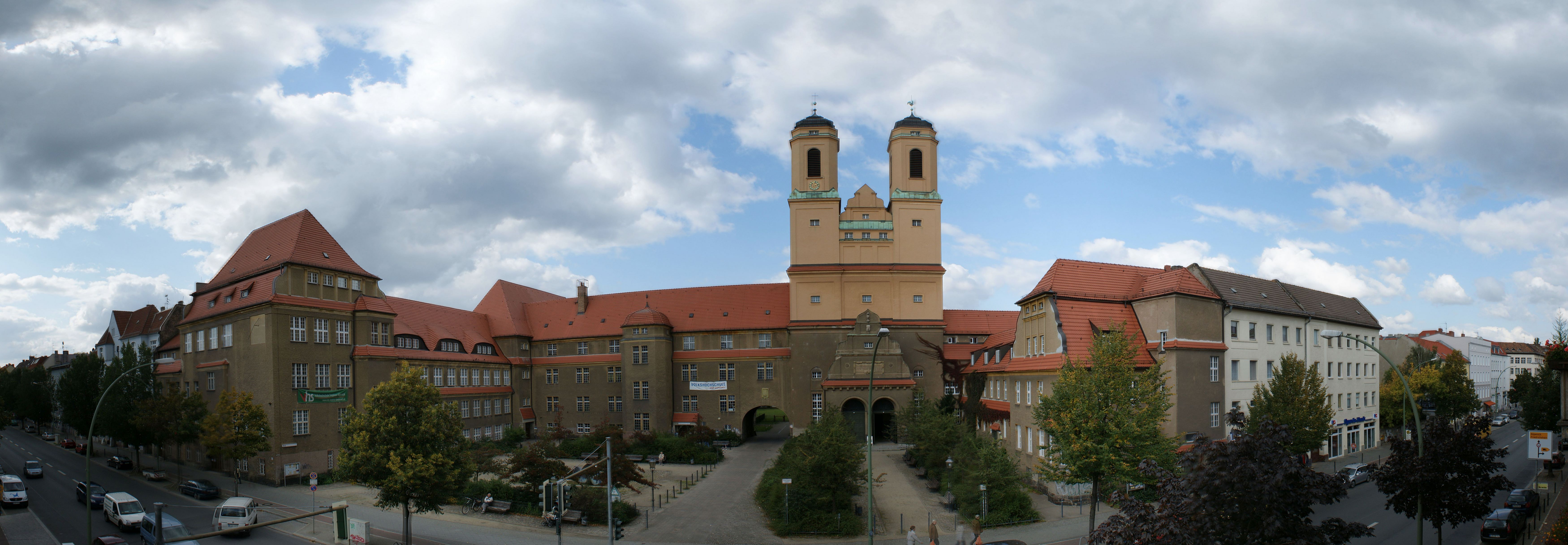 Church "Zum Vaterhaus" and (former) School in Berlin Baumschulenweg